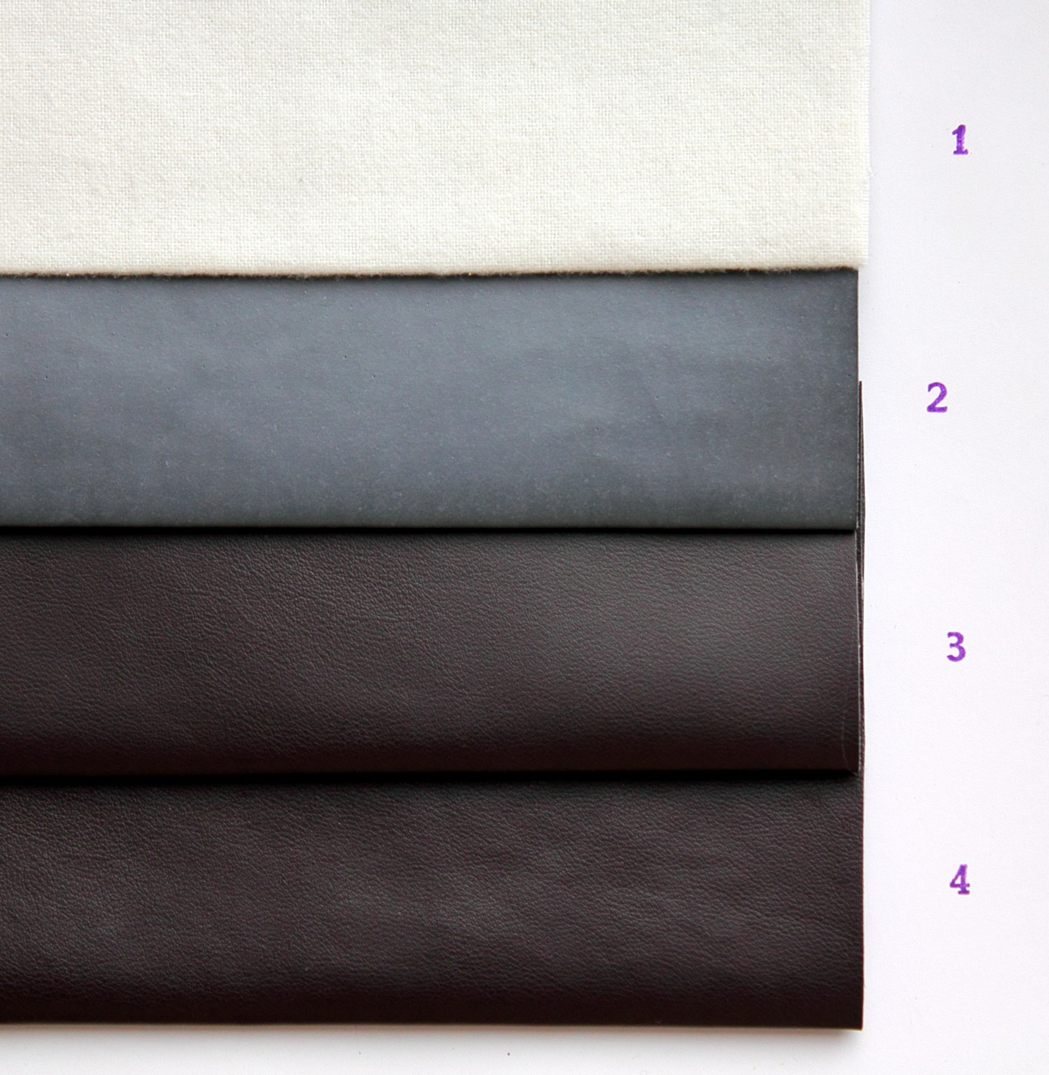 Steps to make synthetic PU leather: 1 = cotton fabric, 2 = coagulation (wet process) onto fabric with aromatic polyurethane in DMF, 3 + 4 = transfer of coating + finish with solventborne polyurethane formulation.